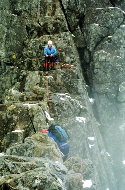 Crossing Tower Gap,Tower Ridge on Ben Nevis